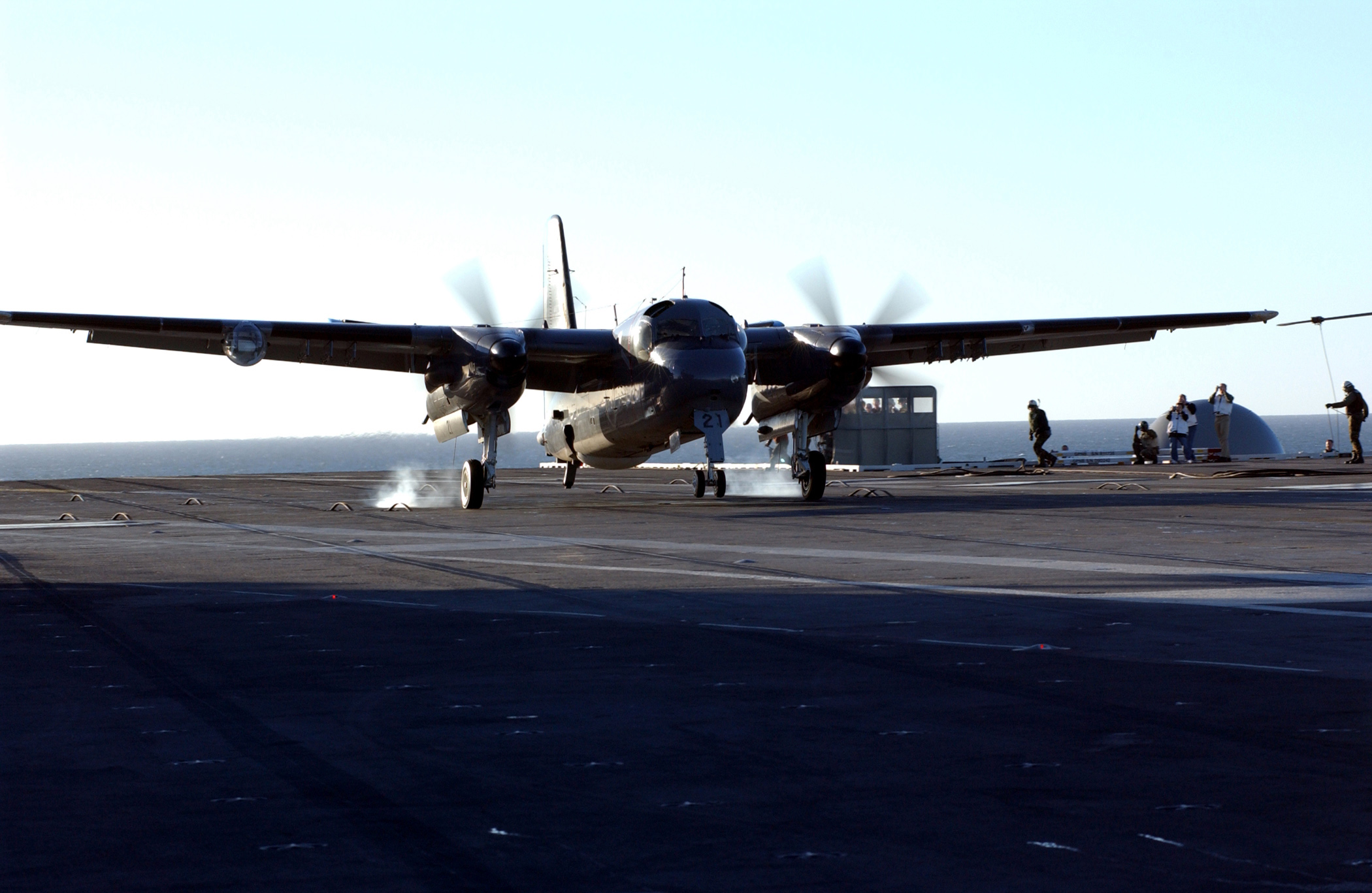 South Pacific Ocean (June 17, 2004) – An Argentine Navy S-2 Tracker aircraft comes in for a “touch and go” landing on the flight deck of Nimitz-class aircraft carrier USS Ronald Reagan (CVN 76). The S-2 Tracker is a carrier-borne or land-based anti-submarine warfare patrol aircraft. Reagan is currently circumnavigating South America to her new homeport of San Diego, Calif. U.S. Navy photo by Photographer's Mate 3rd Class Angel G. Hilbrands (RELEASED)